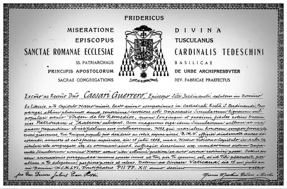 Canonical coronation of Virgin of Remedies of Pampanga, 1956